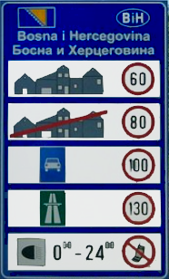 Speed limit in Bosnia